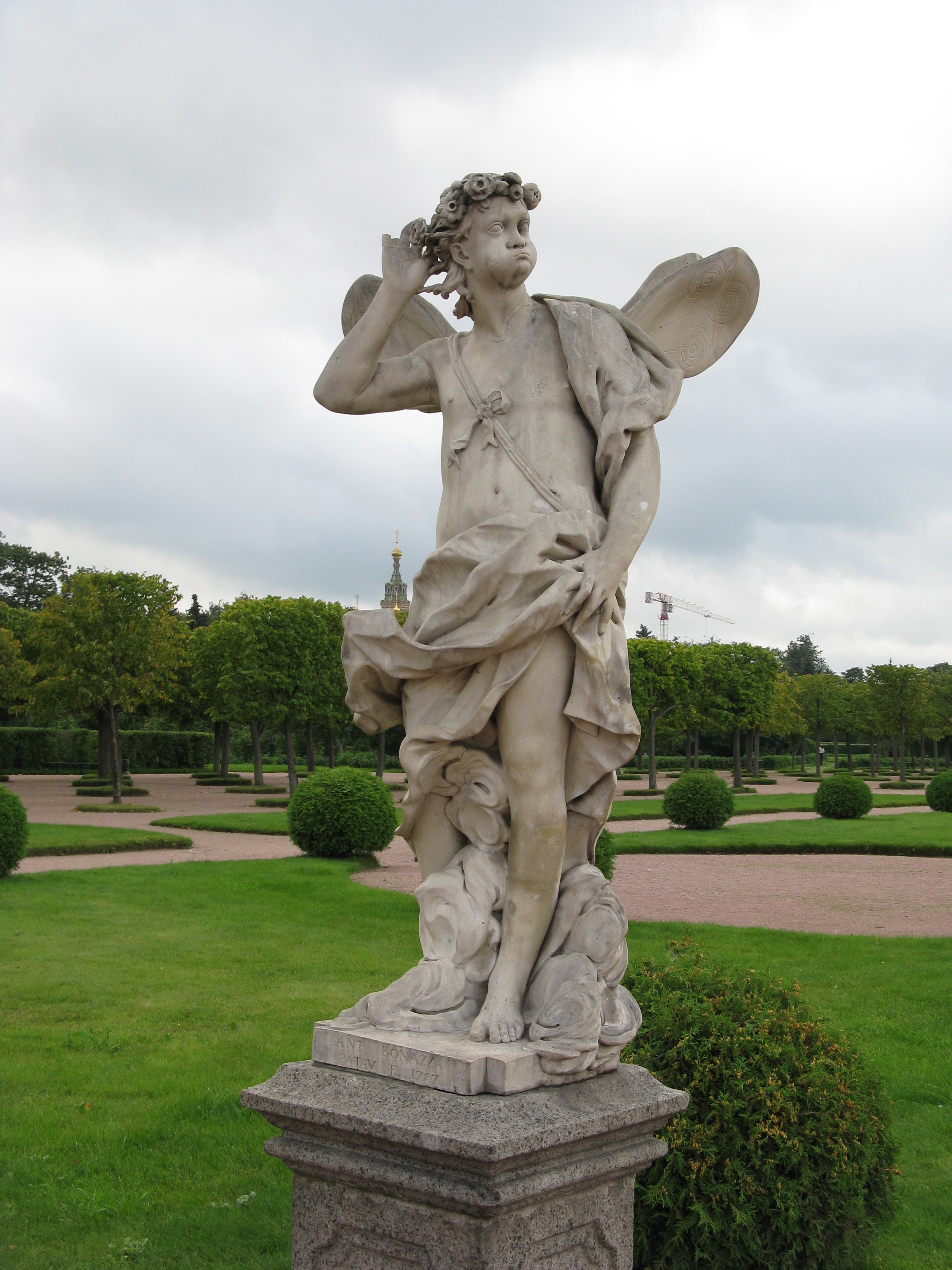 Zephyrus (Zefir) by Antonio Bonazza, 1757 at Upper Gardens of Peterhof.